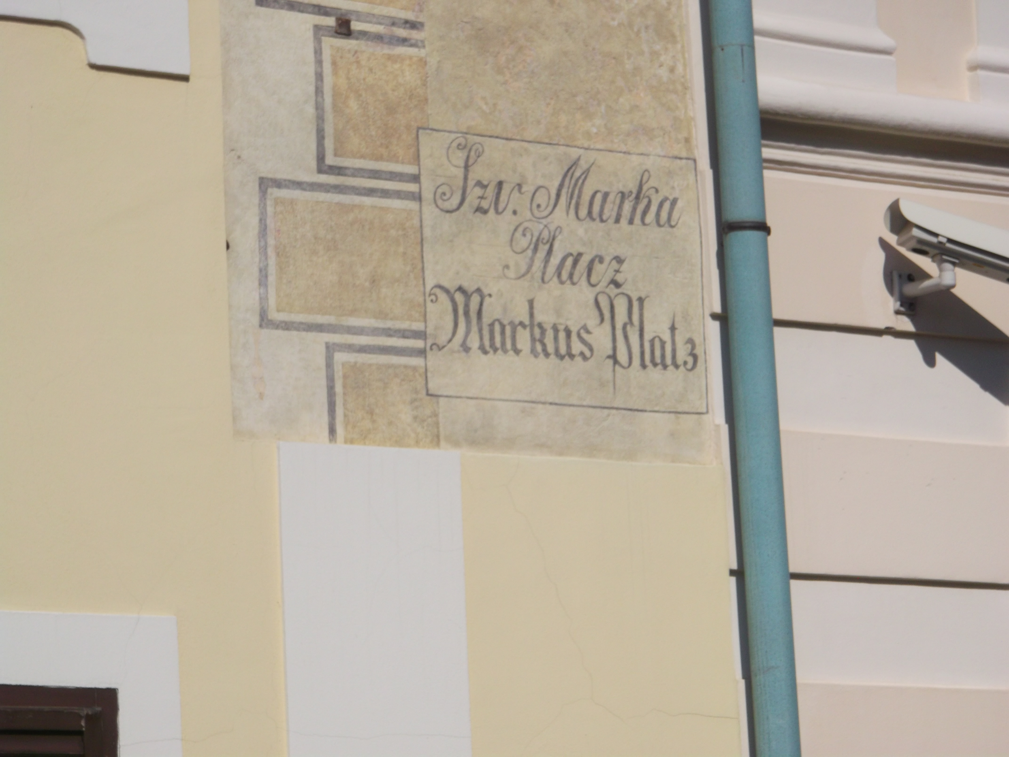 Bilingual Kajkavian/German street sign in Zagreb from the 19th century. Szvetoga Marka Placz (St. Marc Square)